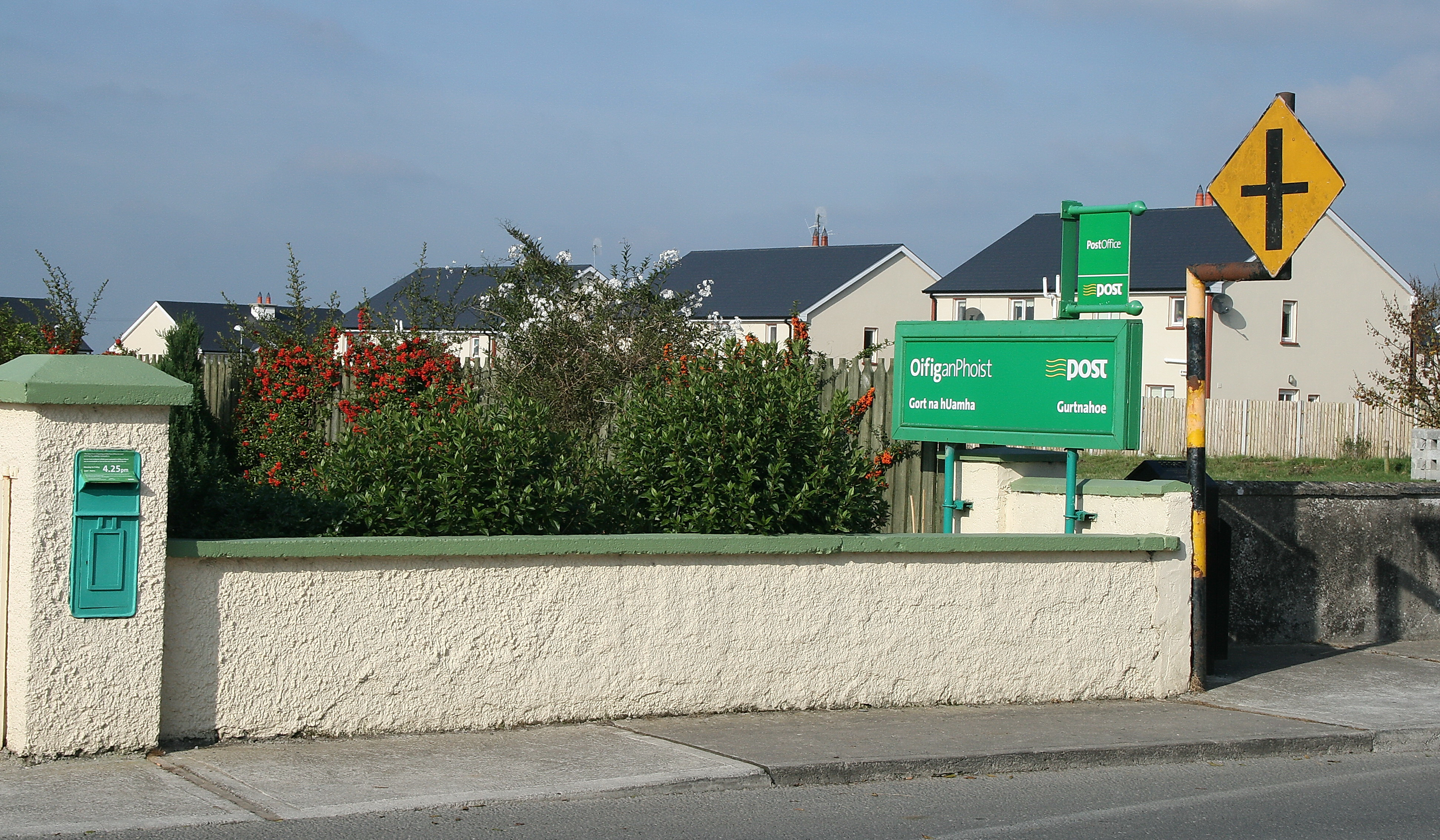 Gortnahoo, County Tipperary (2), near to Gortnahoo, Rathbeg Bridge and Tranagh, Tipperary, Ireland. The Post Office.